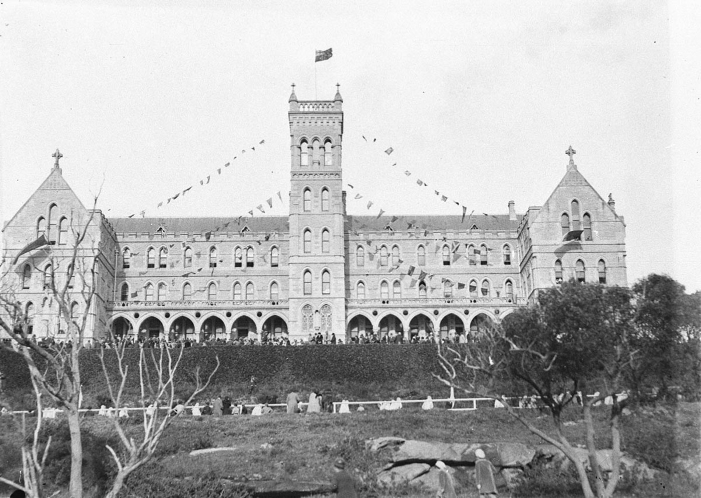 A long shot of the St Patrick's College seminary